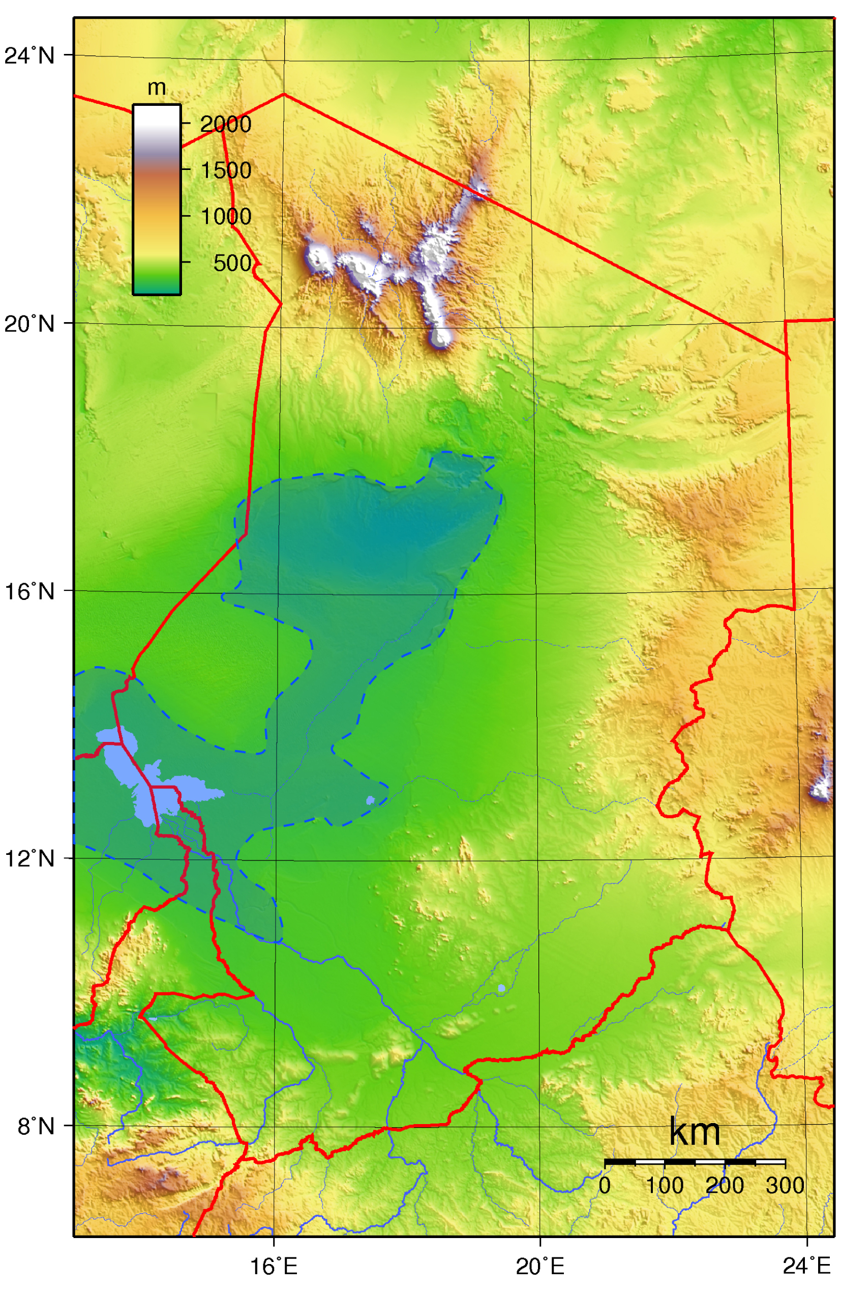 maximum extension of the Holocene Lake Mega Chad (light blue area limited by a blue dotted line) ; based on [2] and using Chad Topography.png (PD) by Sadalmelik